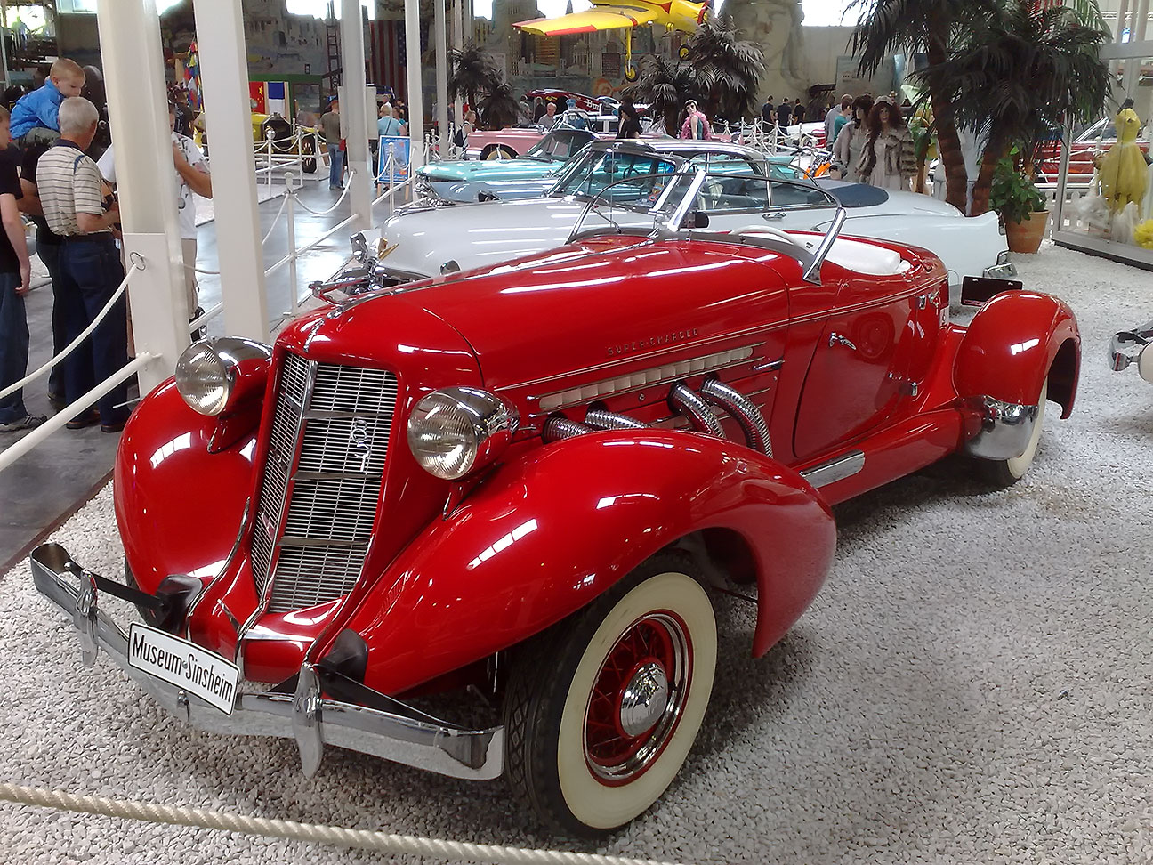 Auburn Boattail Speedster 851 at Auto- und Technikmuseum Sinsheim